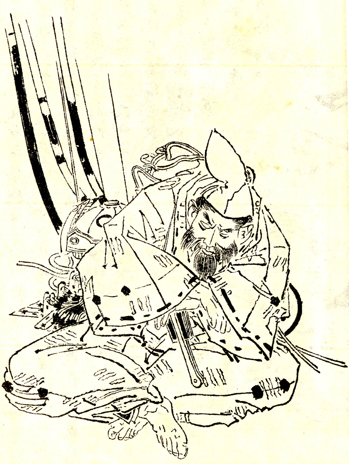 Wada Yoshimori (和田義盛)was a Samurai of Japan in Kamakura era.This picture was drawn by Kikuchi Yosai（菊池容斎） who was a painter in Japan.